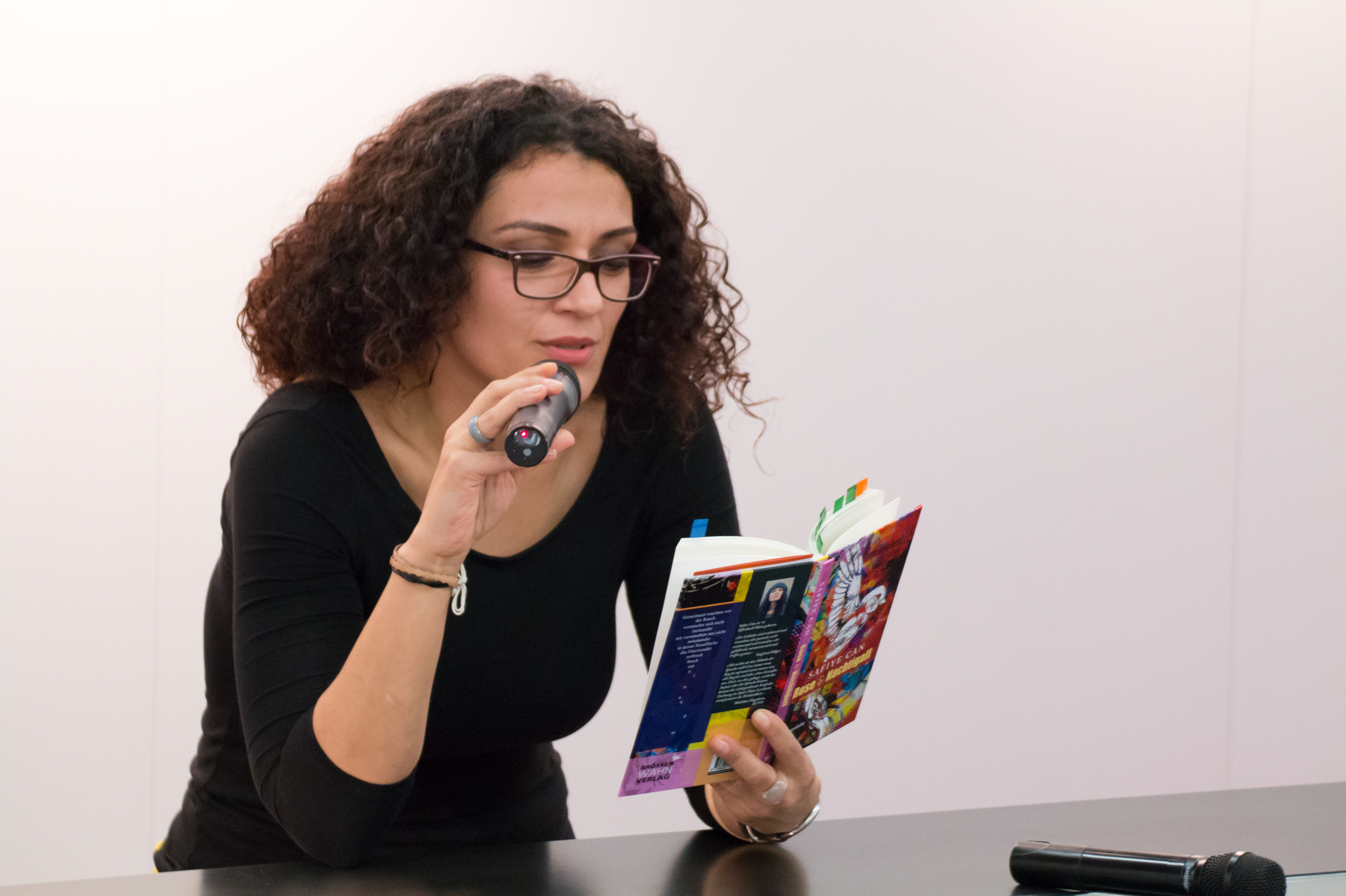 The german poet, writer and translator Safiye Can at the Frankfurt Book Fair 2014